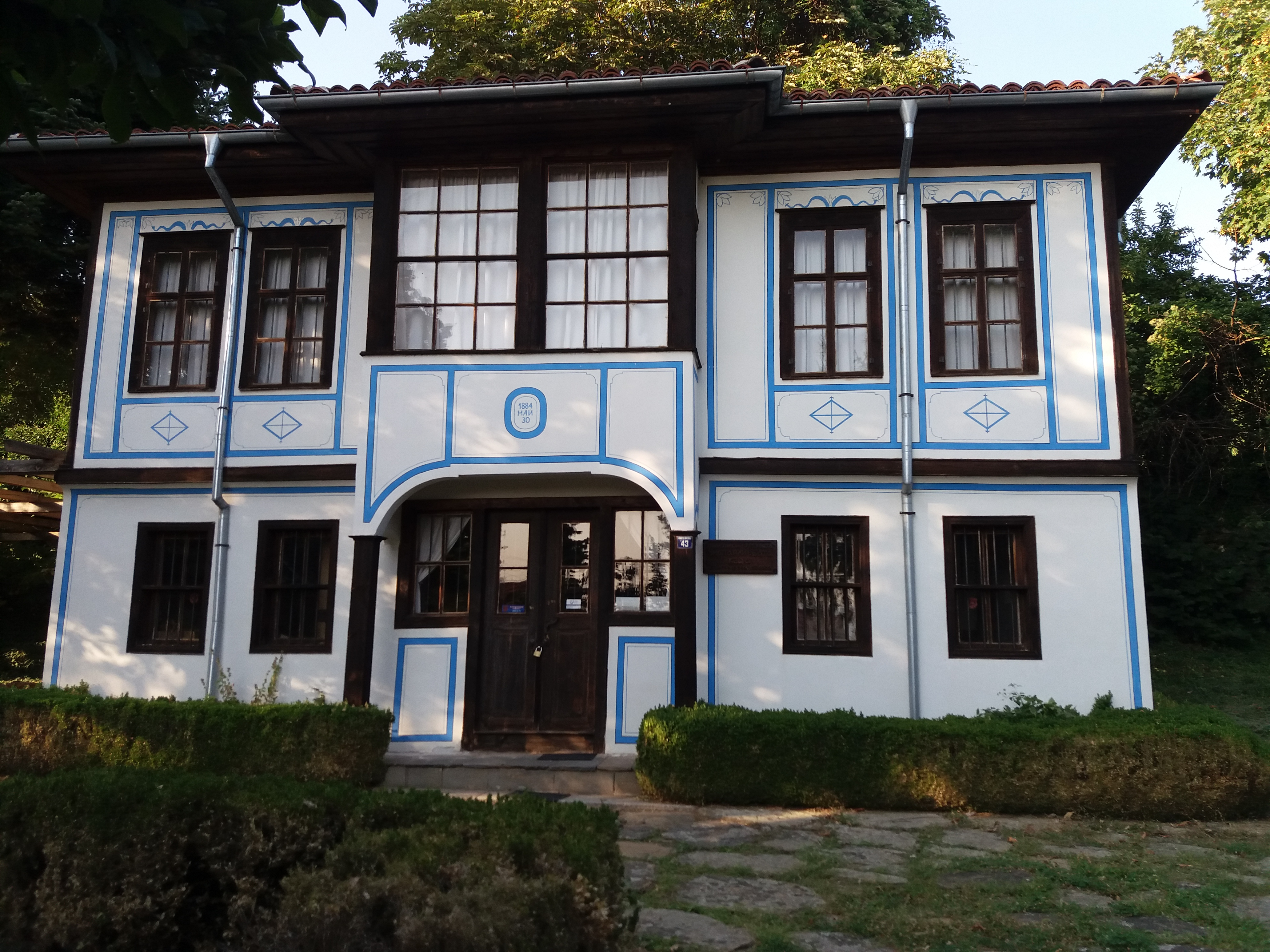 Ethnographic museum,Chirpanliev's House, Shipka